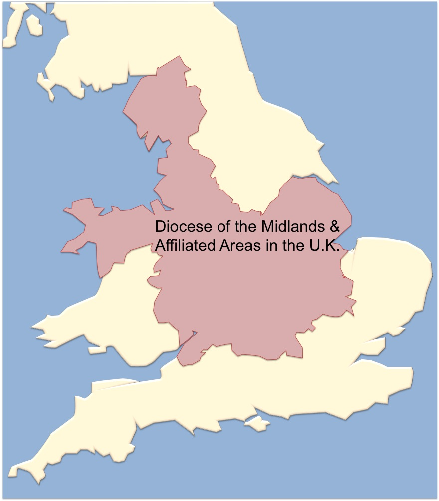 Boundaries of the Coptic Orthodox Diocese of the Midlands & Affiliated Areas UK. Blue dots are main congregations. Boundaries are subject to change.